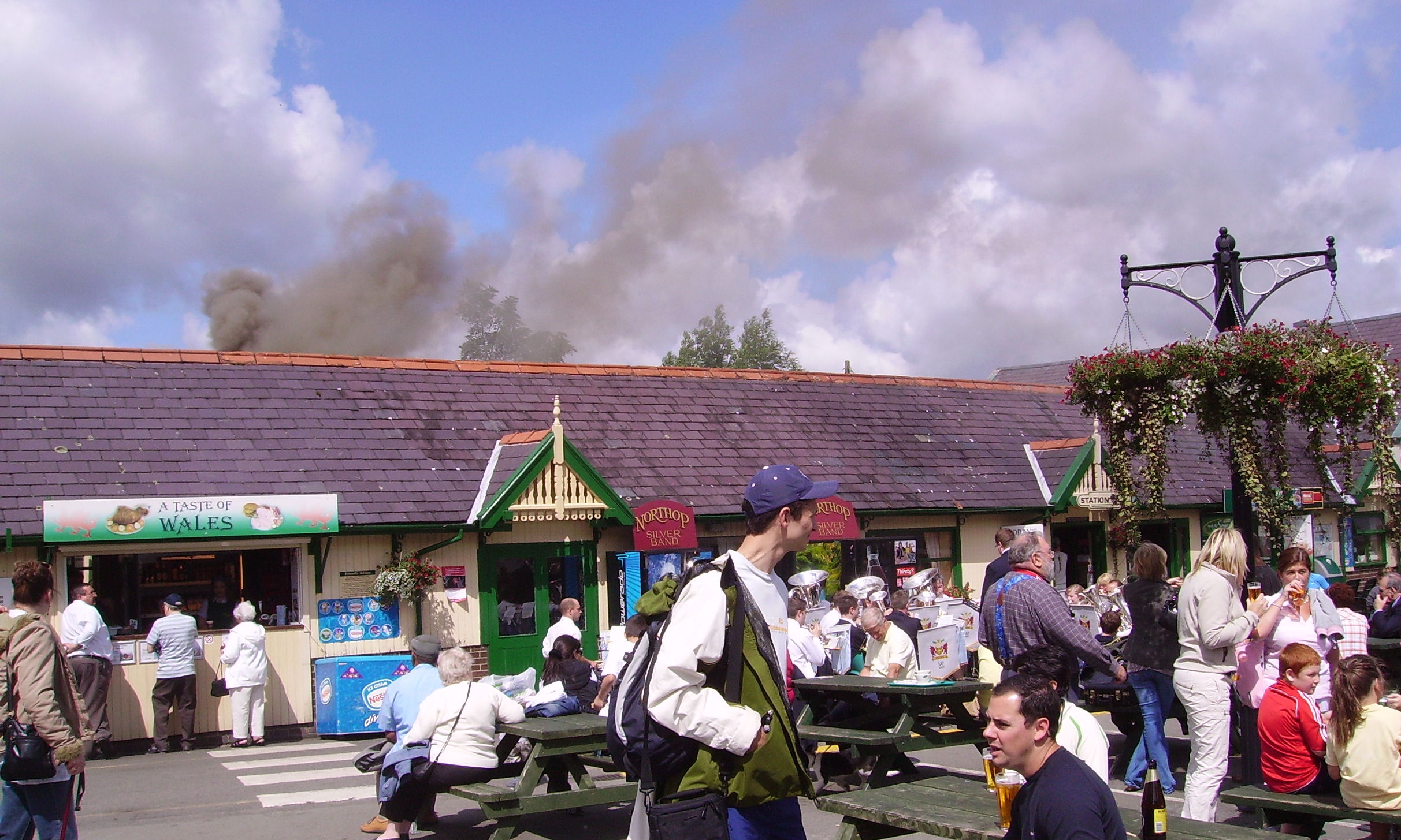 view of Snowdonia in Wales